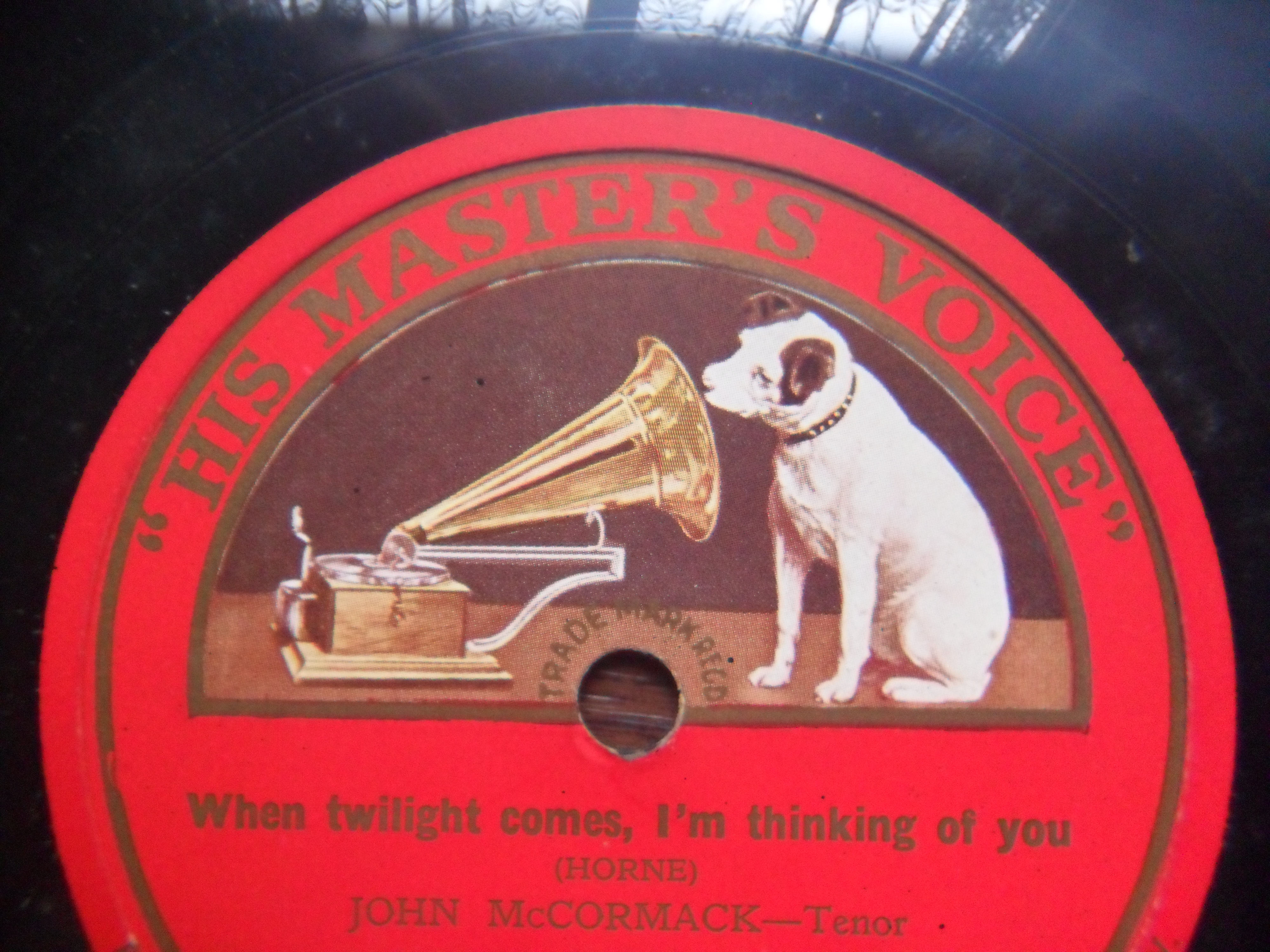 record label